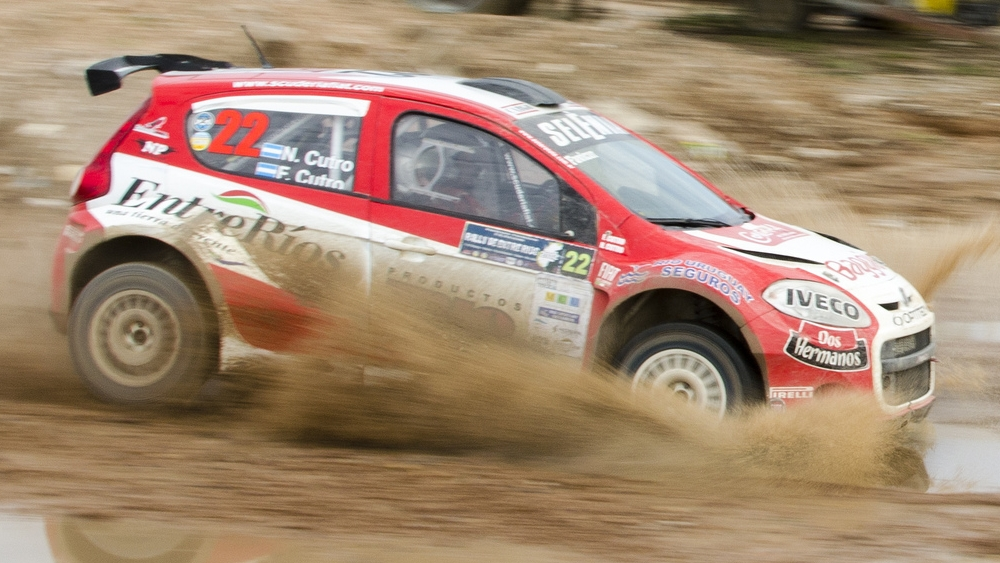 Sisters Nadia and Florencia Cutro during the Rally de Entre Ríos 2012, in Argentina. (Derivated work. Please see detailed information below.)